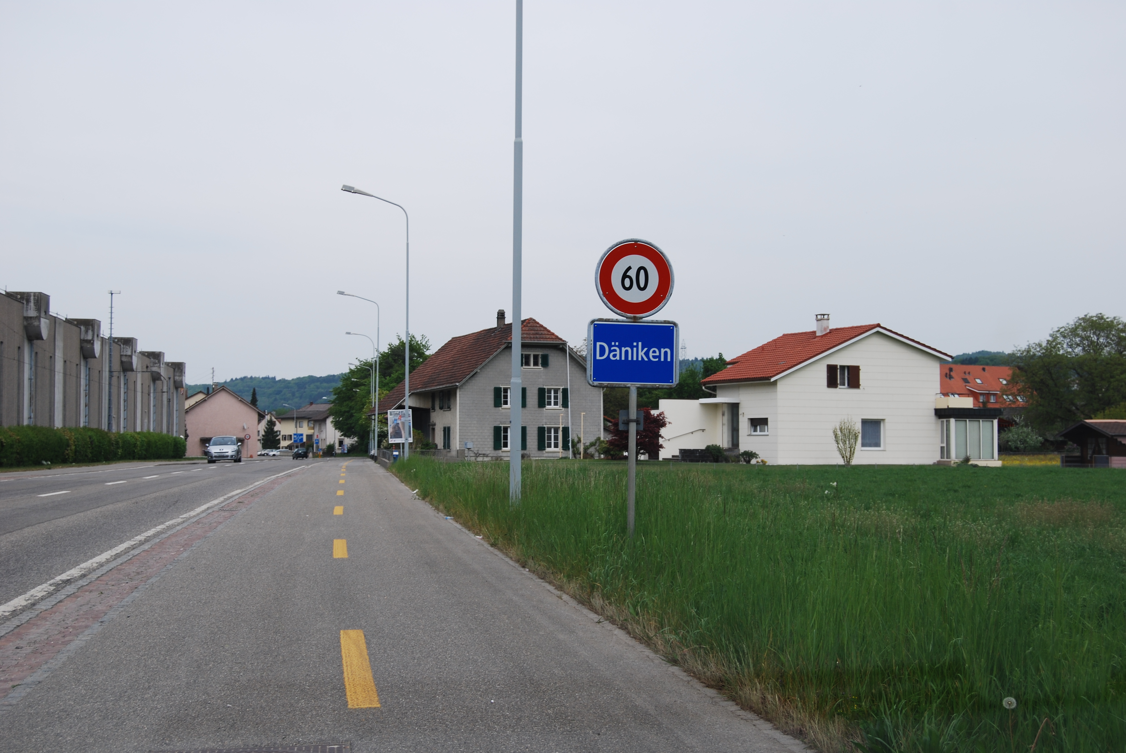 Village entry of Däniken comming from Dulliken, canton of Solothurn, Switzerland